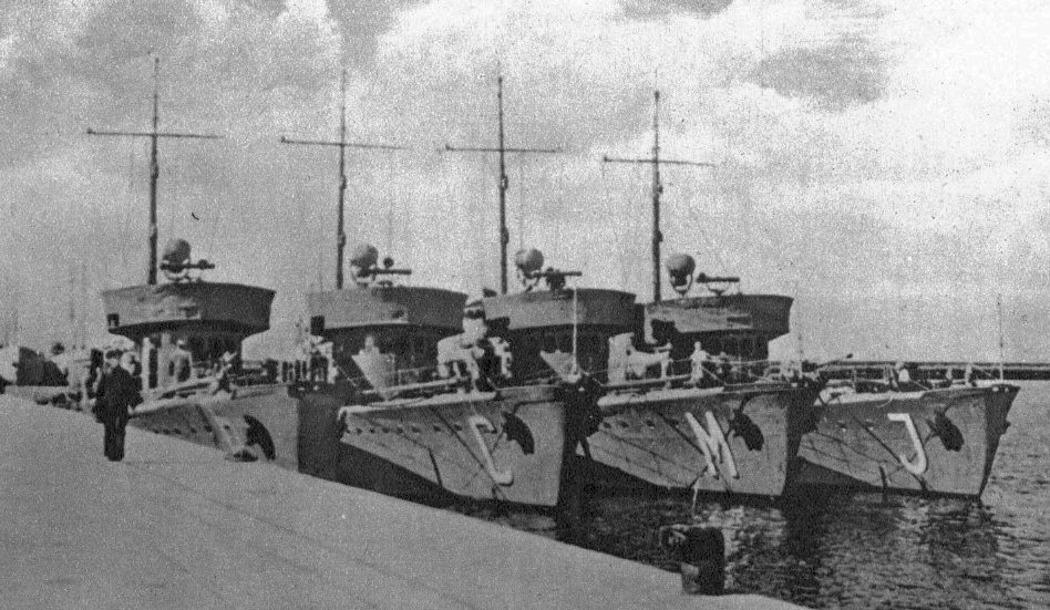 Polish minesweepers OORP Rybitwa, Czajka, Mewa, Jaskółka; so-called birdies (ptaszki).